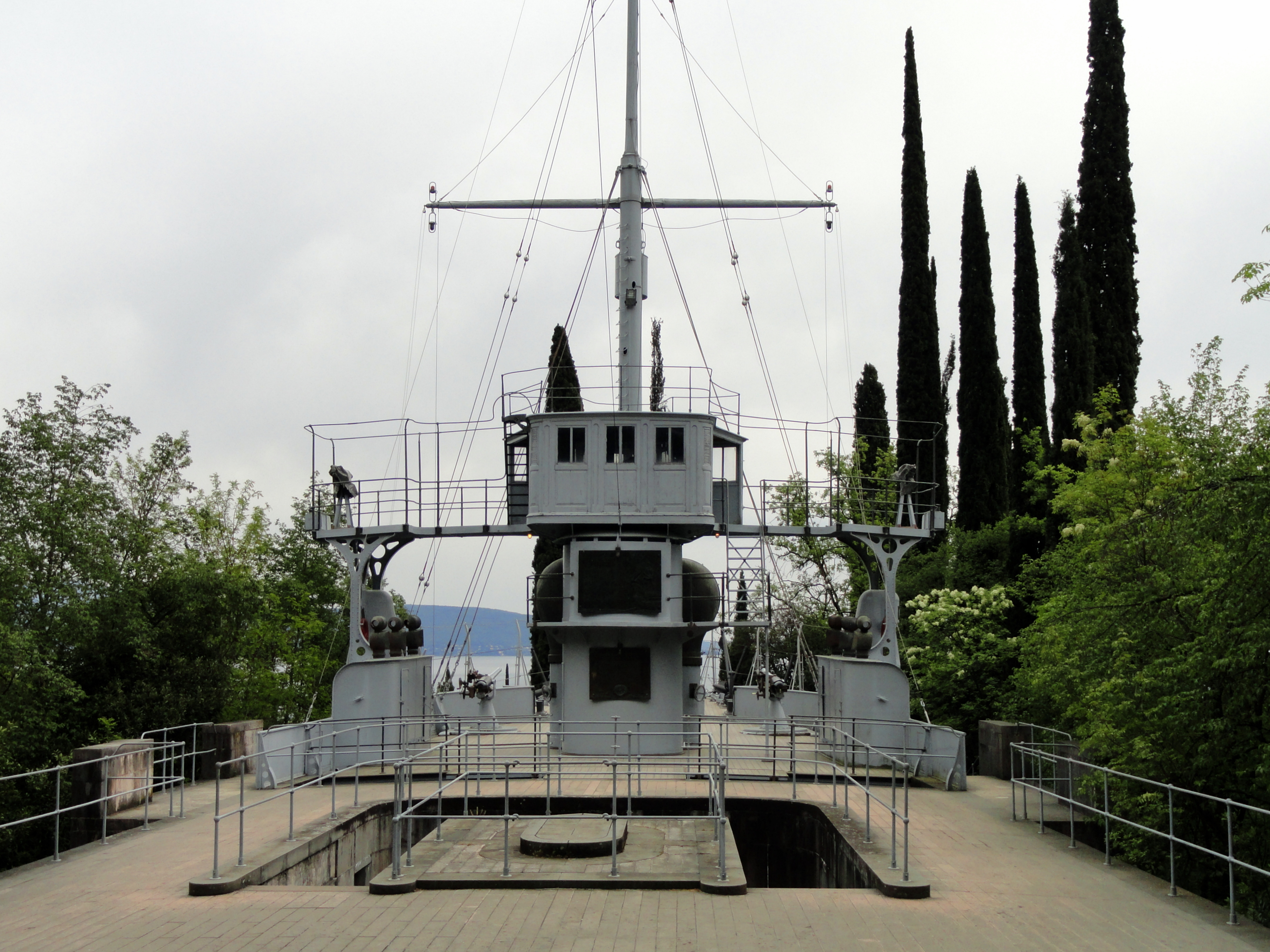 The light cruiser Puglia, at the Vittoriale degli italiani, in Gardone Riviera, on Lake Garda, Brescia, Italy.